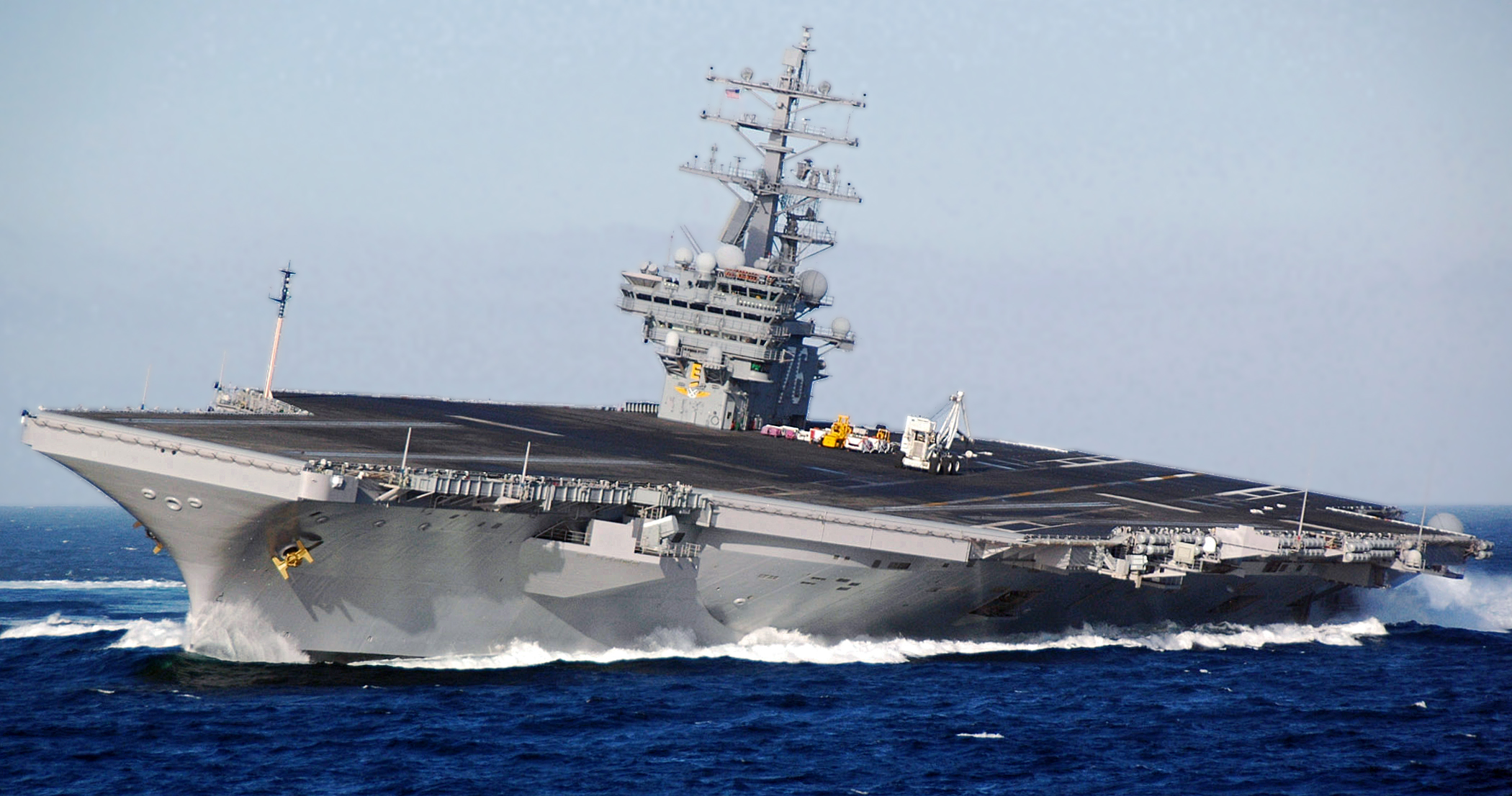 USS Ronald Reagan (CVN 76) conducts rudder checks as part of the ship's Board of Inspection and Survey (INSURV) following a six-month Planned Incremental Availability. All naval vessels are periodically inspected by INSURV to check their material condition and battle readiness. U.S. Navy photo by Mass Communication Specialist 2nd Class M. Jeremie Yoder (RELEASED)